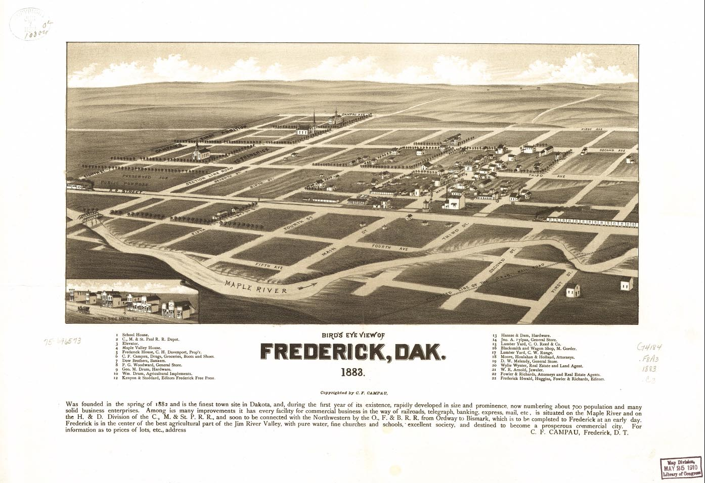 1883 bird's eye illustration of Frederick, South Dakota, USA.